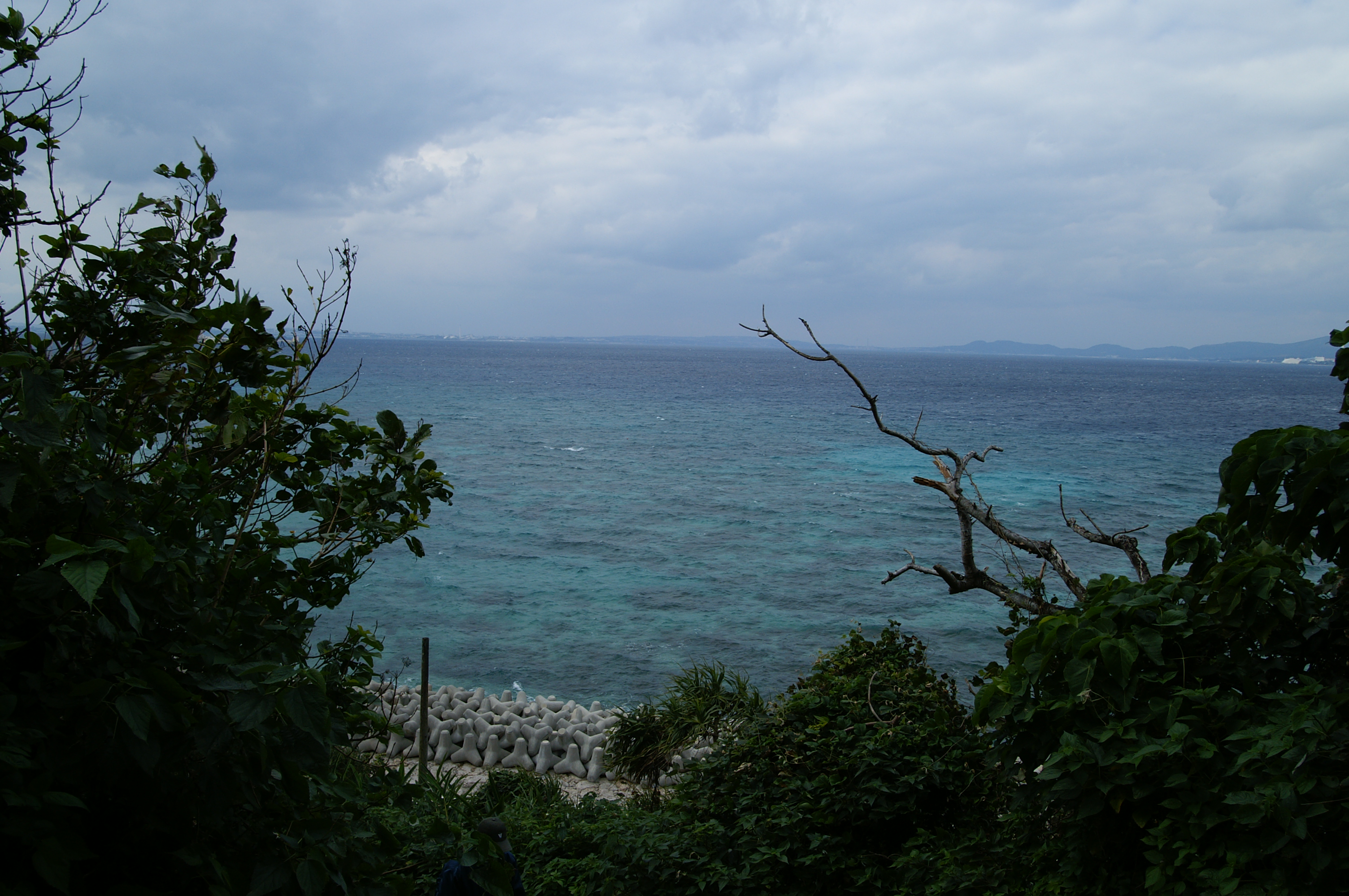 Kin Bay viewed from Ikei Island, Uruma, Okinawa Prefecture, Japan. Feb. 2, 2007. (2007/02/02 Uruma, Okinawa, JAPAN)